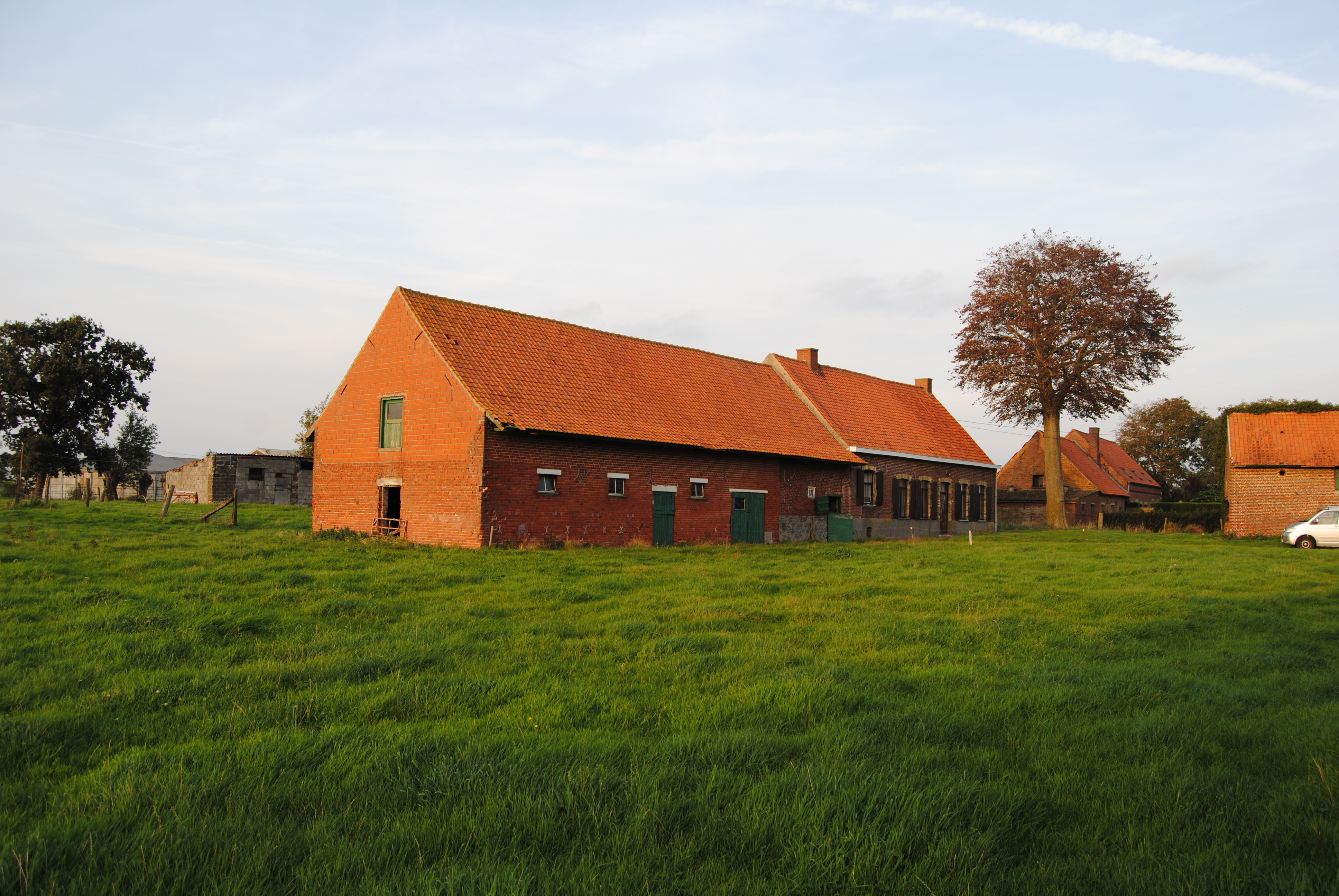 Farm De Gunst : House